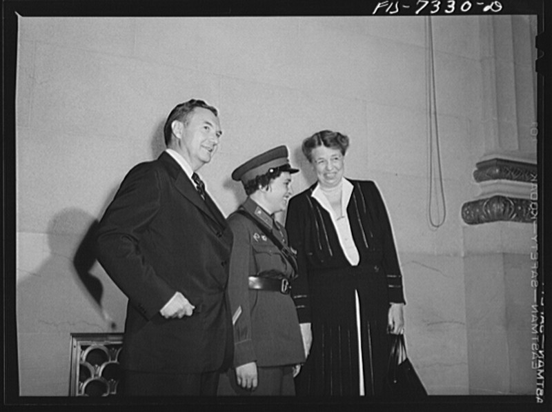 Washington, D.C. International youth assembly. Russian delegate with Mrs. Roosevelt and Justice Robert Jackson is Liudmila Pavlichenko